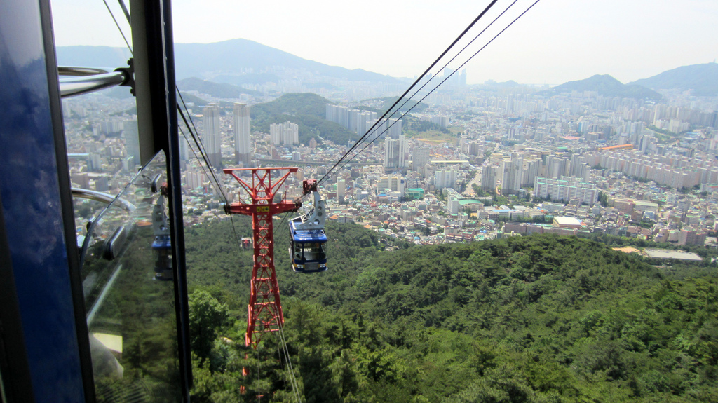 Cable car at Geumjeong Mountain (Geumjeongsan), Busan, South Korea. Photograph from Flickr; author Gregory Foster; license of cc-by-2.0.